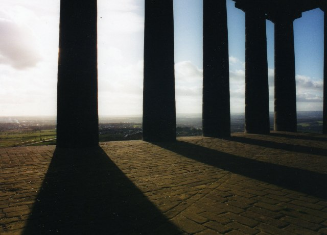 View from Penshaw Monument over surrounding countryside.